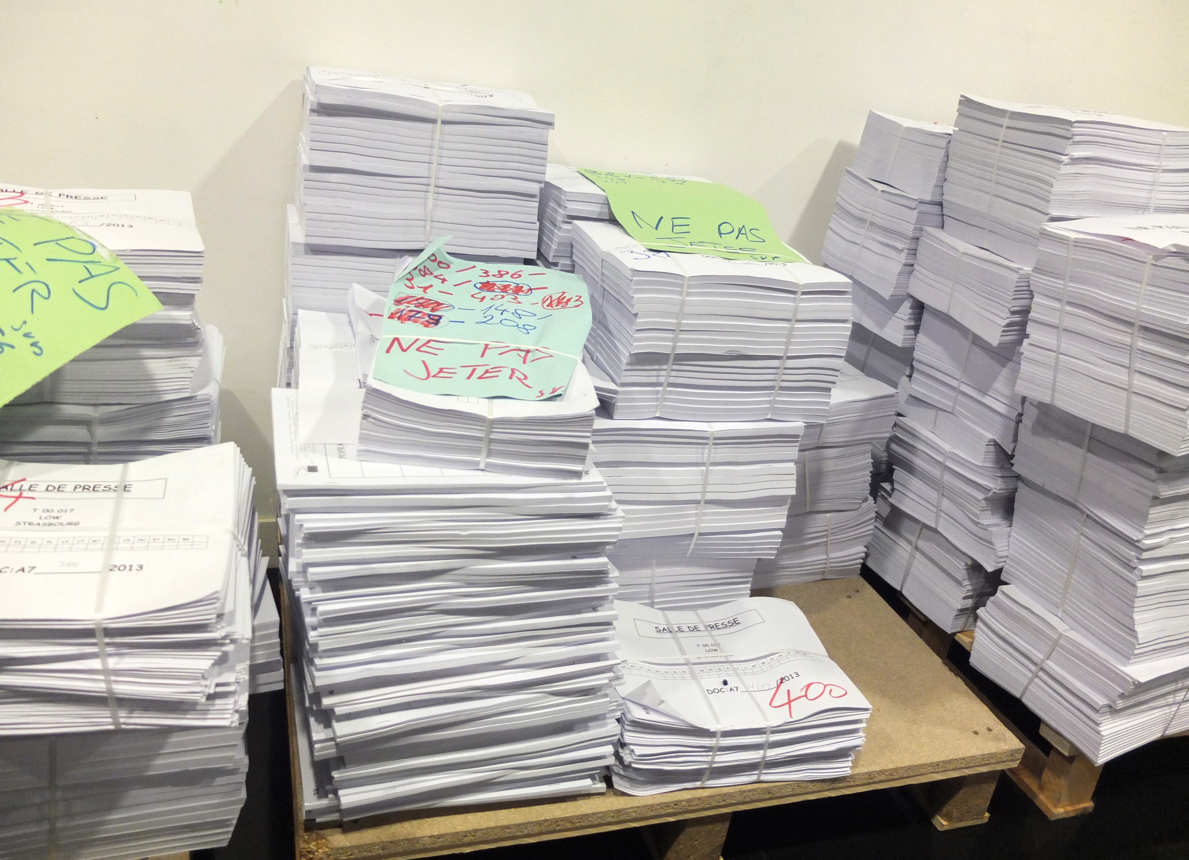 Stacks of printed handouts at the European Parliament, Strasbourg, France, February 2014.